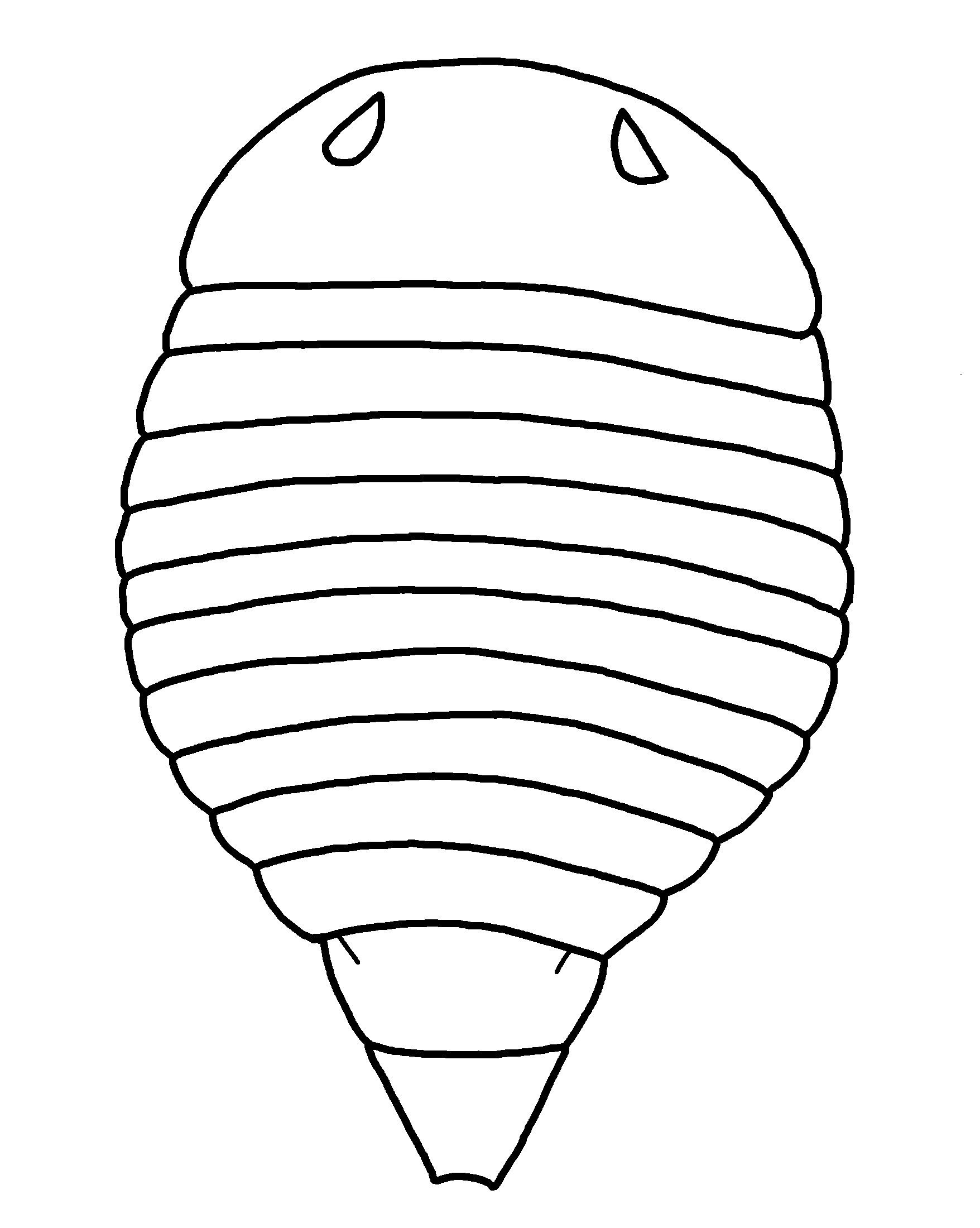 Restoration of the strabopid Paleomerus makowskii, based on Orłowski, 1983.